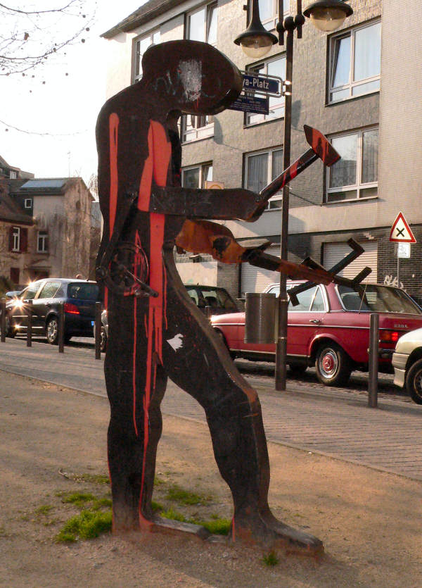 Unofficial copy of Jonathan Borofsky's sculpture "Hammering Man" in the Hülya-Platz in Frankfurt, Germany. The hammer demolishes a swastika and can be moved with a hand crank. A citizen's group against neo-Nazism donated the sculpture. As the sculpture finally was extremely damaged and rusted out, it was scrapped in the Spring of 2007 and replaced by a replica.